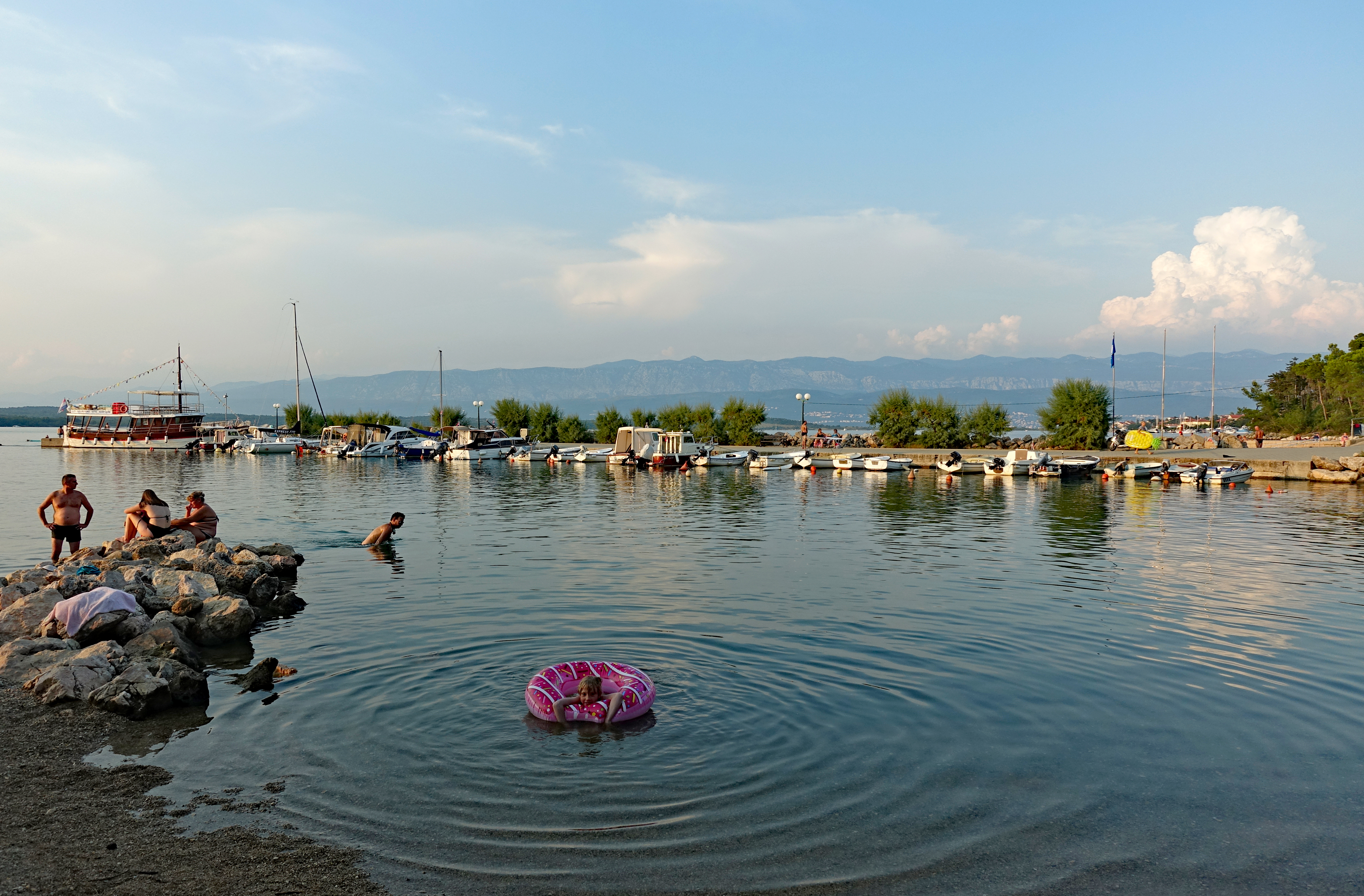 Soline Beach.